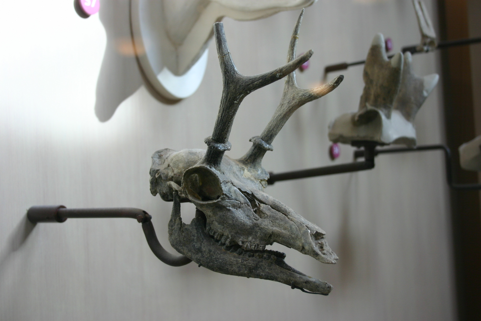 Cosoryx furcatus